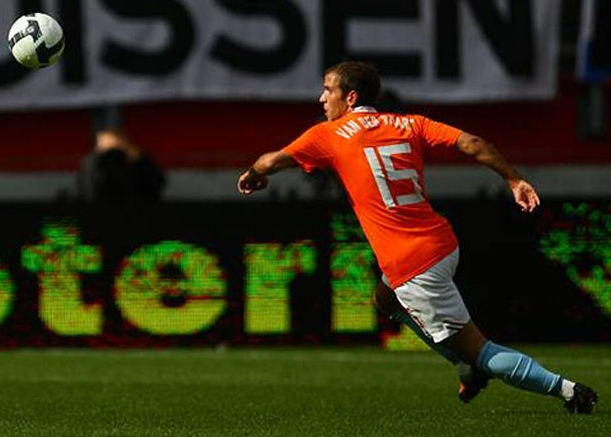 SEPTEMBER 5, 2009 - Football : Rafael van der Vaart of Netherlands in action during the international friendly match between Netherlands and Japan at FC Twente Stadium, Enschede, Netherlands. (Photo by Tsutomu Takasu)